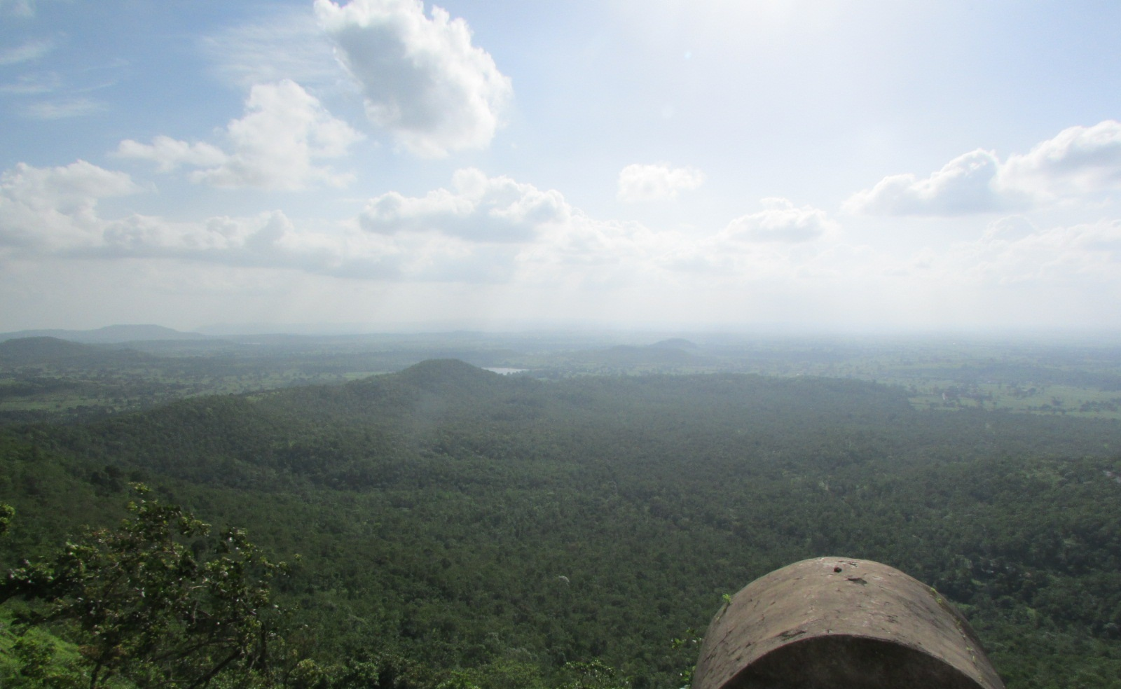 The picture was captured from the top of Janapav